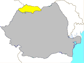 Maramures Region in Romania